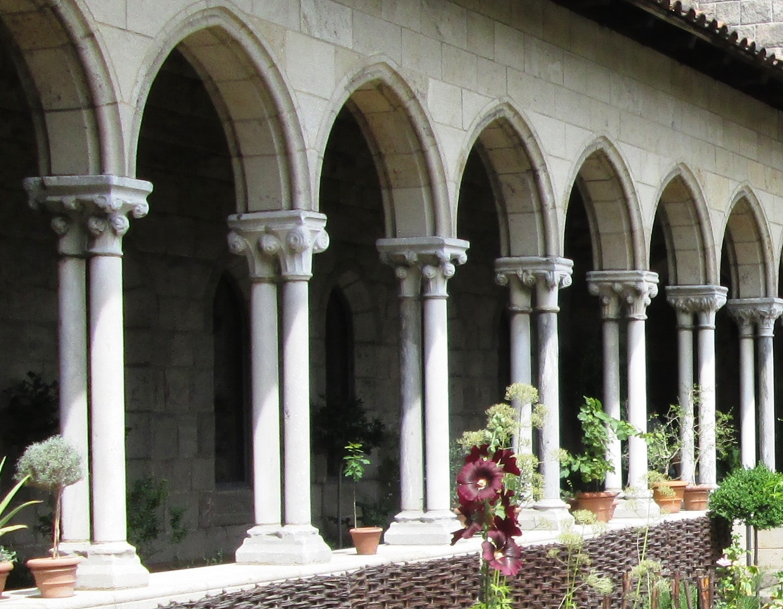 Detail of twin-capital cloister colonnade from Bonnefont, France. (Original description: "The Bonnefont Cloister in The Cloisters museum of the Metropolitan Museum in Fort Tryon Park, Manhattan, New York City")